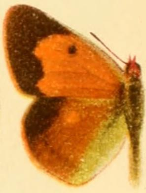 Plate from The Macrolepidoptera of the World. Vol. 1: Colias wiskotti